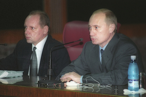 HAVANA. President Putin at a news conference.